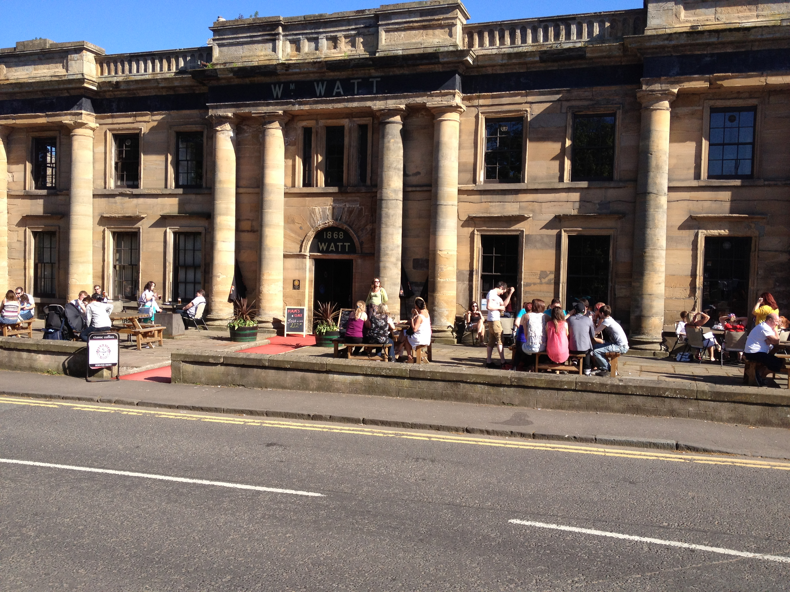 Picture of Watts of Cupar old Jail building in the summer.